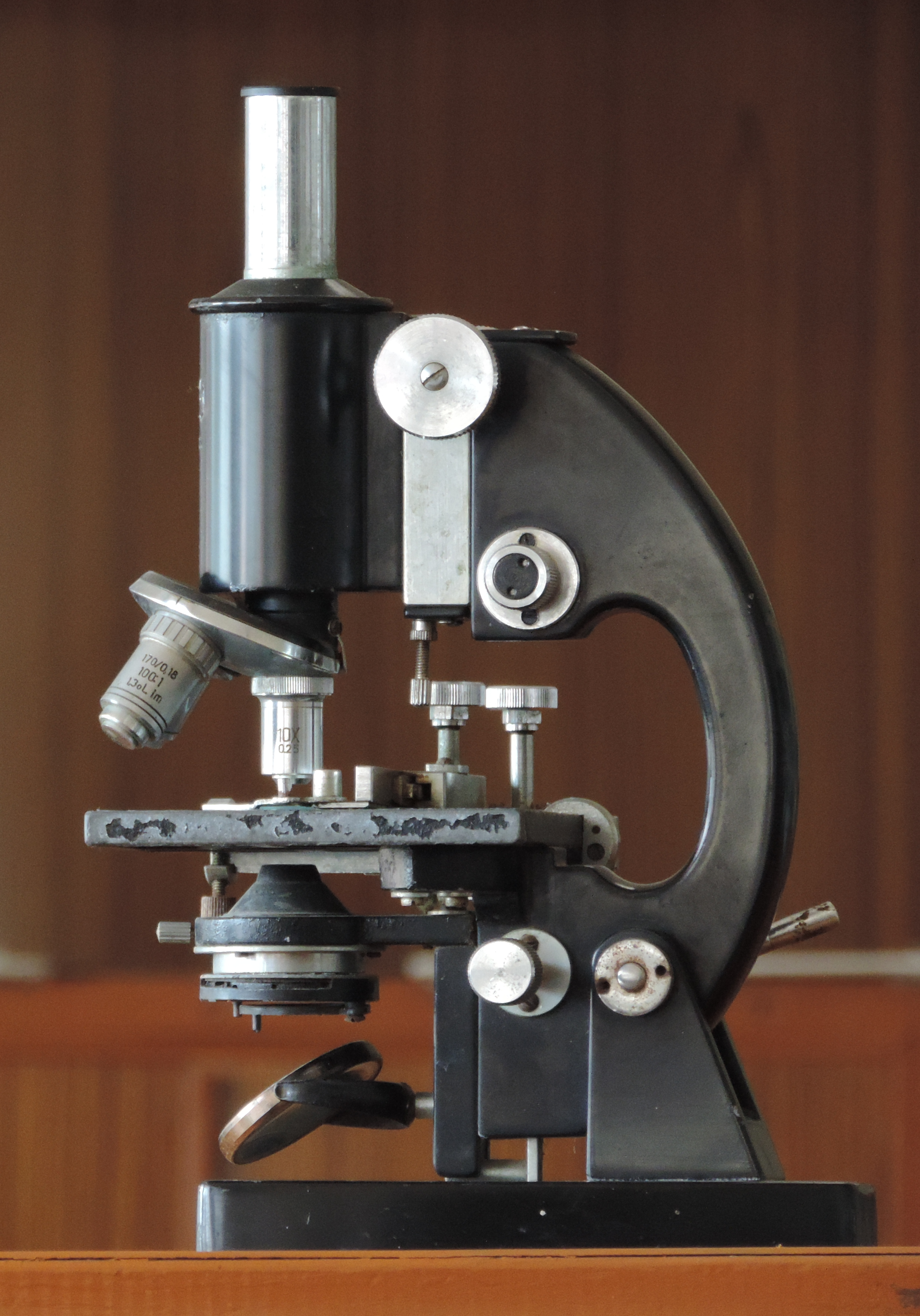 A compound microscope in a Biology lab.